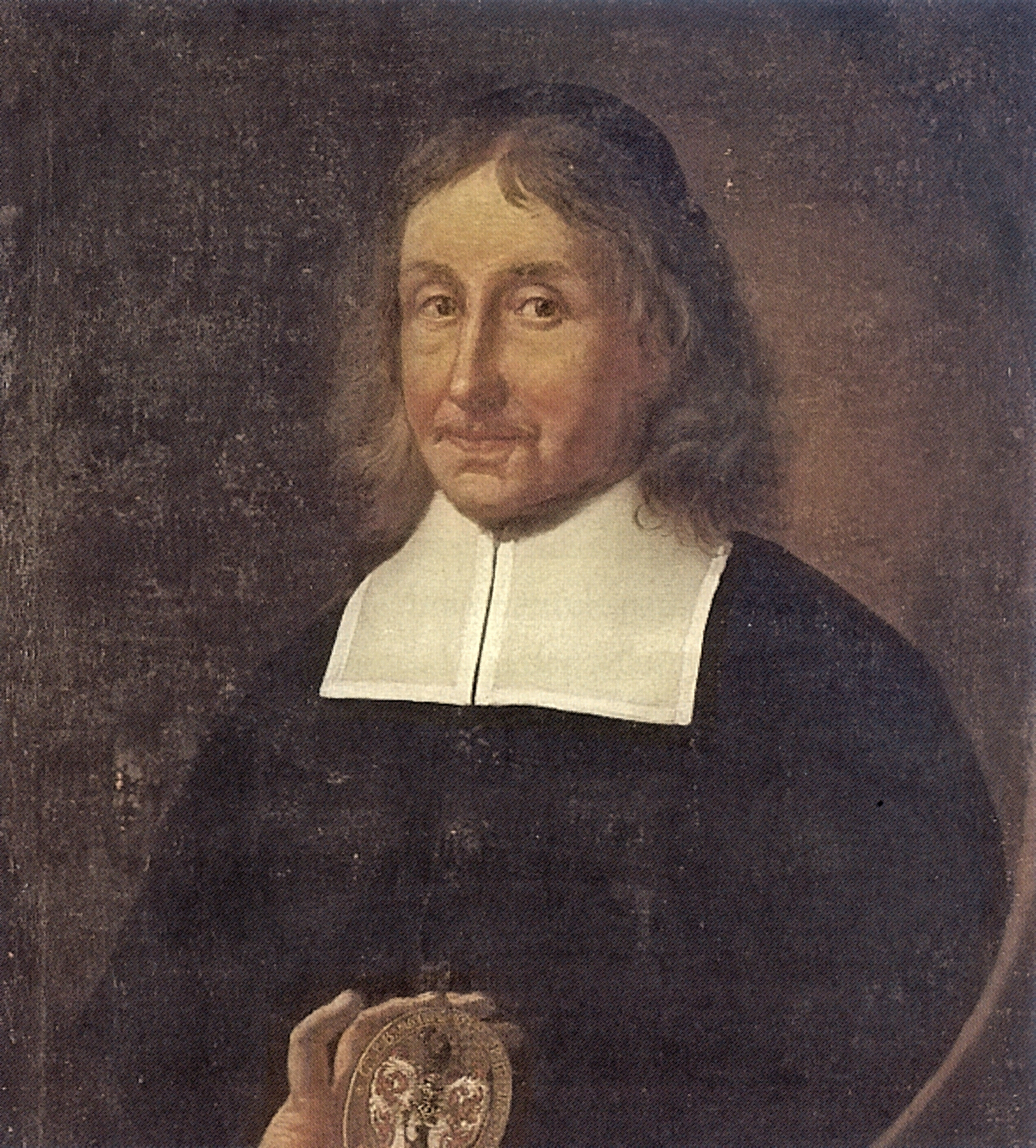 Contemporary portrait of Cornelius Berenberg (1634–1711)